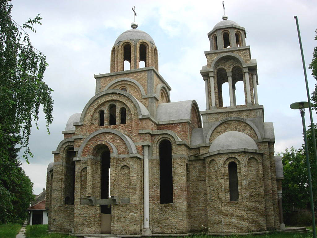 The Orthodox Church in Mladenovo, Serbia.